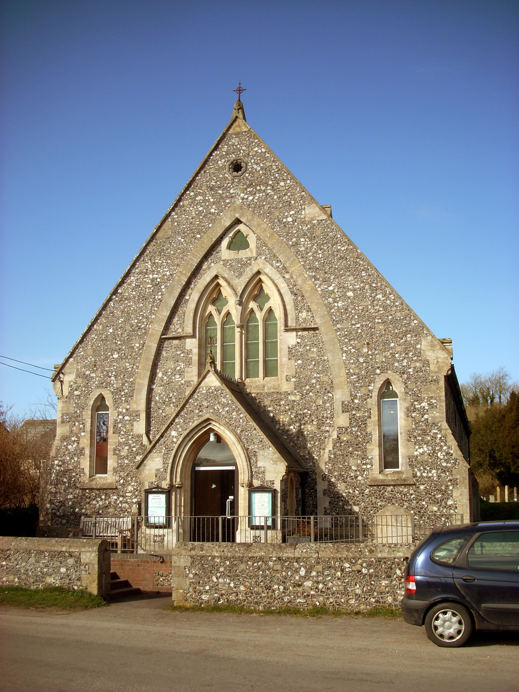 The Chapel (United Reformed Church) at Broad Chalke, Wiltshire.